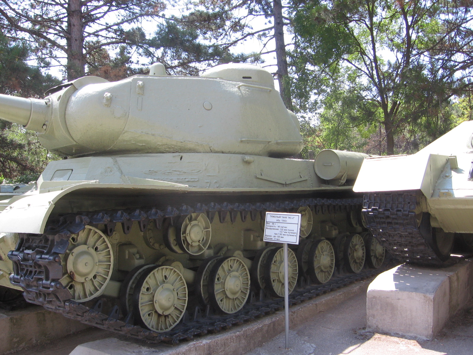 Soviet IS-2 Model 1943, since 1960 displayed at the Museum of Heroic Defense and Liberation of Sevastopol on Sapun Mountain in Sevastopol.